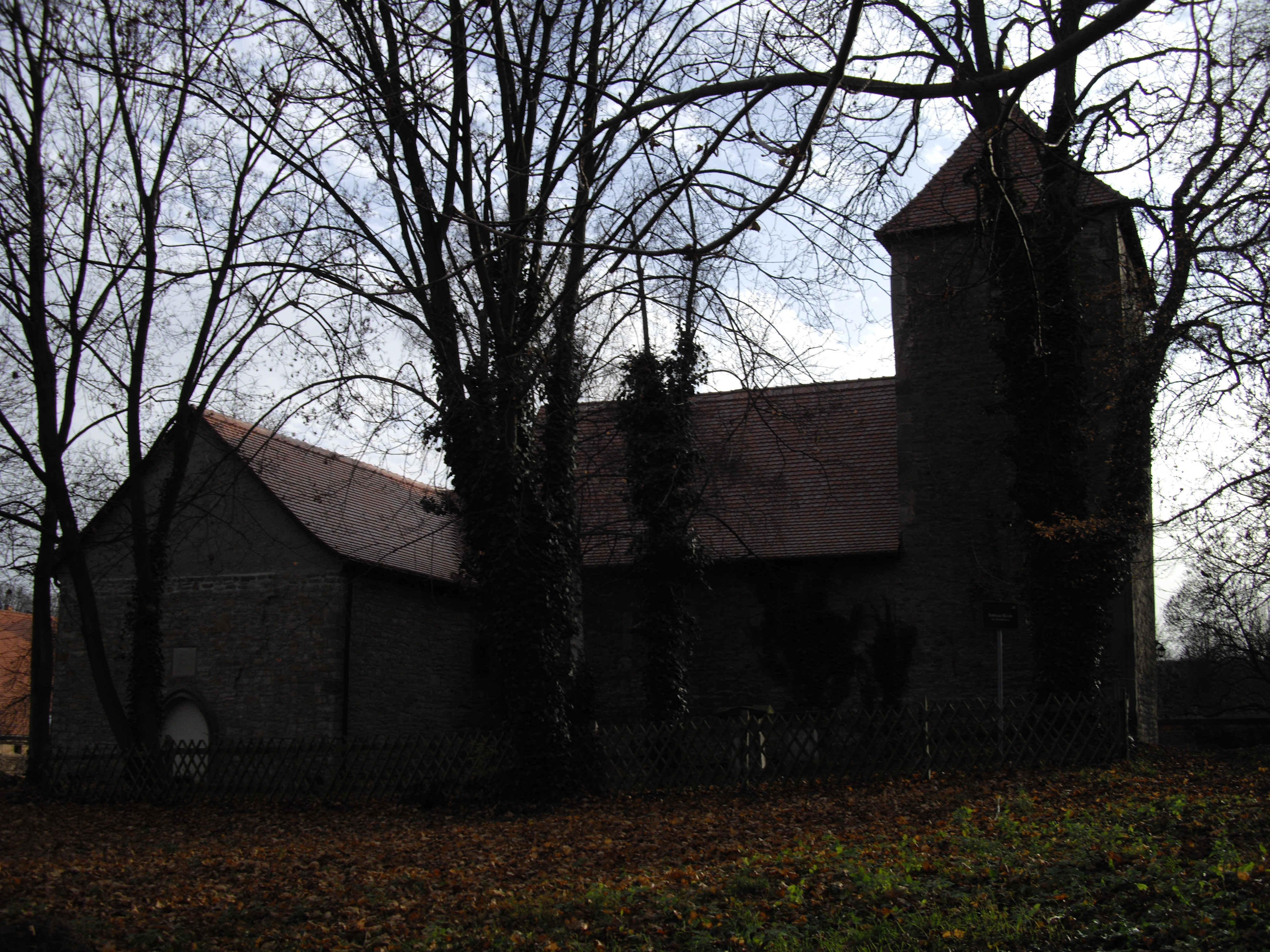 the church St.Andreas in Heiligenthal